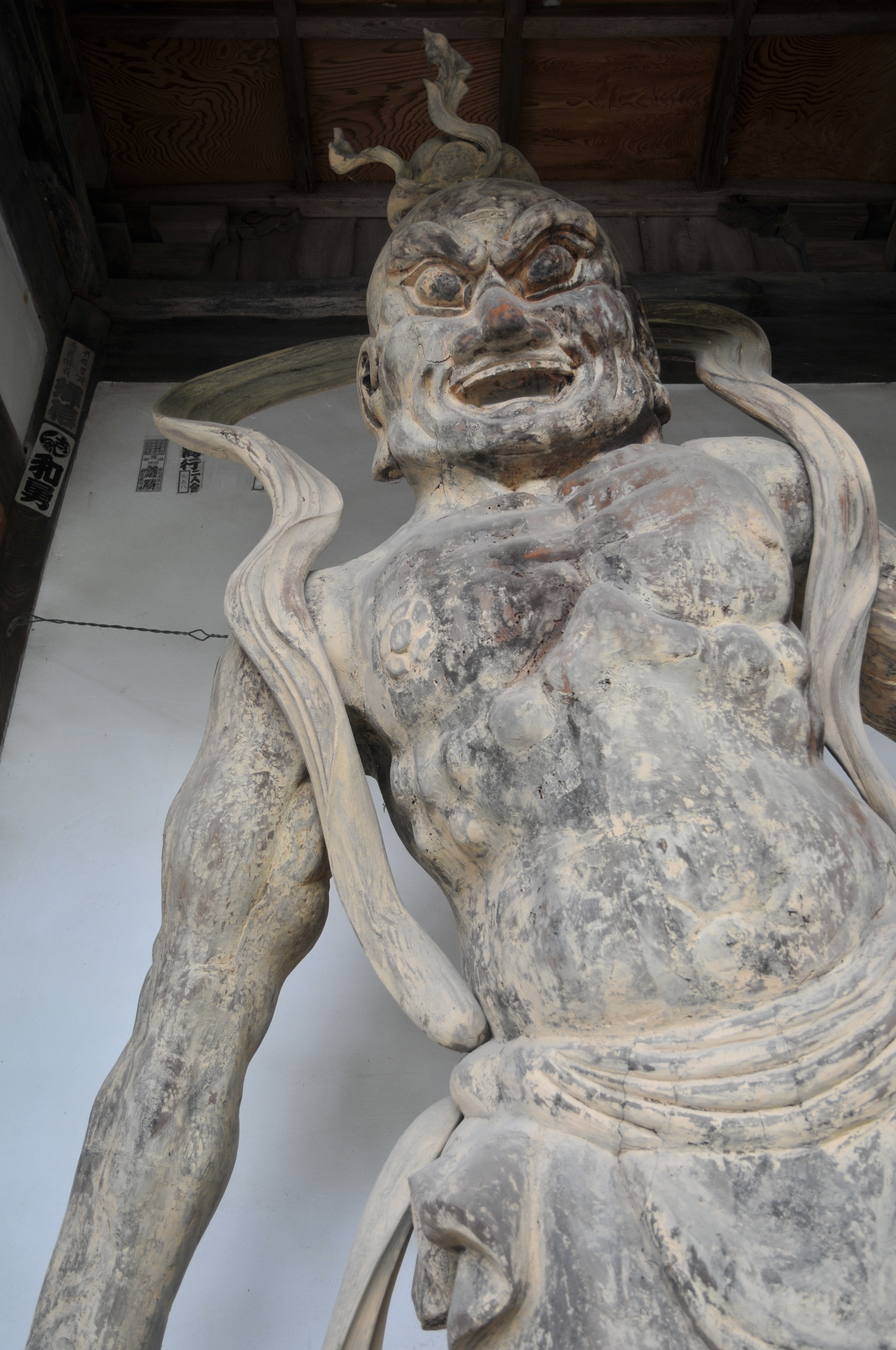 "A" form Niō(Kagawa prefectoral Cultural Property), Daikō-ji